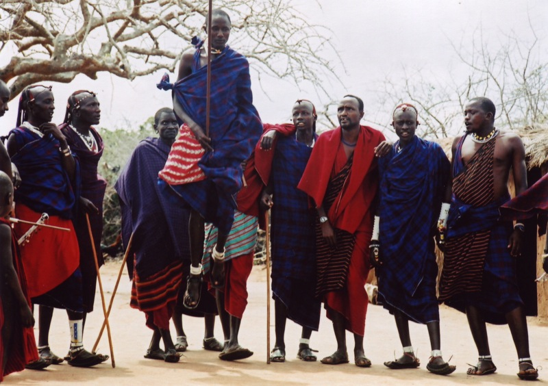 Traditional Maasai Dance Kenya 2005